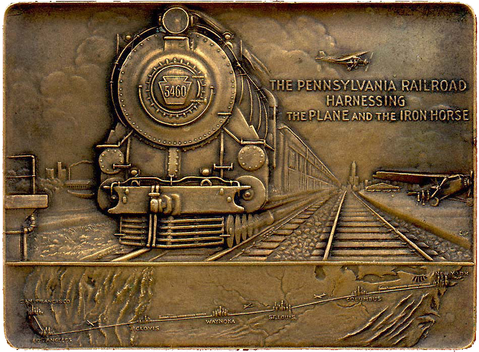 Pennsylvania Railroad-Transcontinental Air Transport brass paperweight commemorating the inauguration or transcontinental rail-air passenger service on July 7, 1929. The Cooper Collection of Railroadiana (Uploader's private collection)